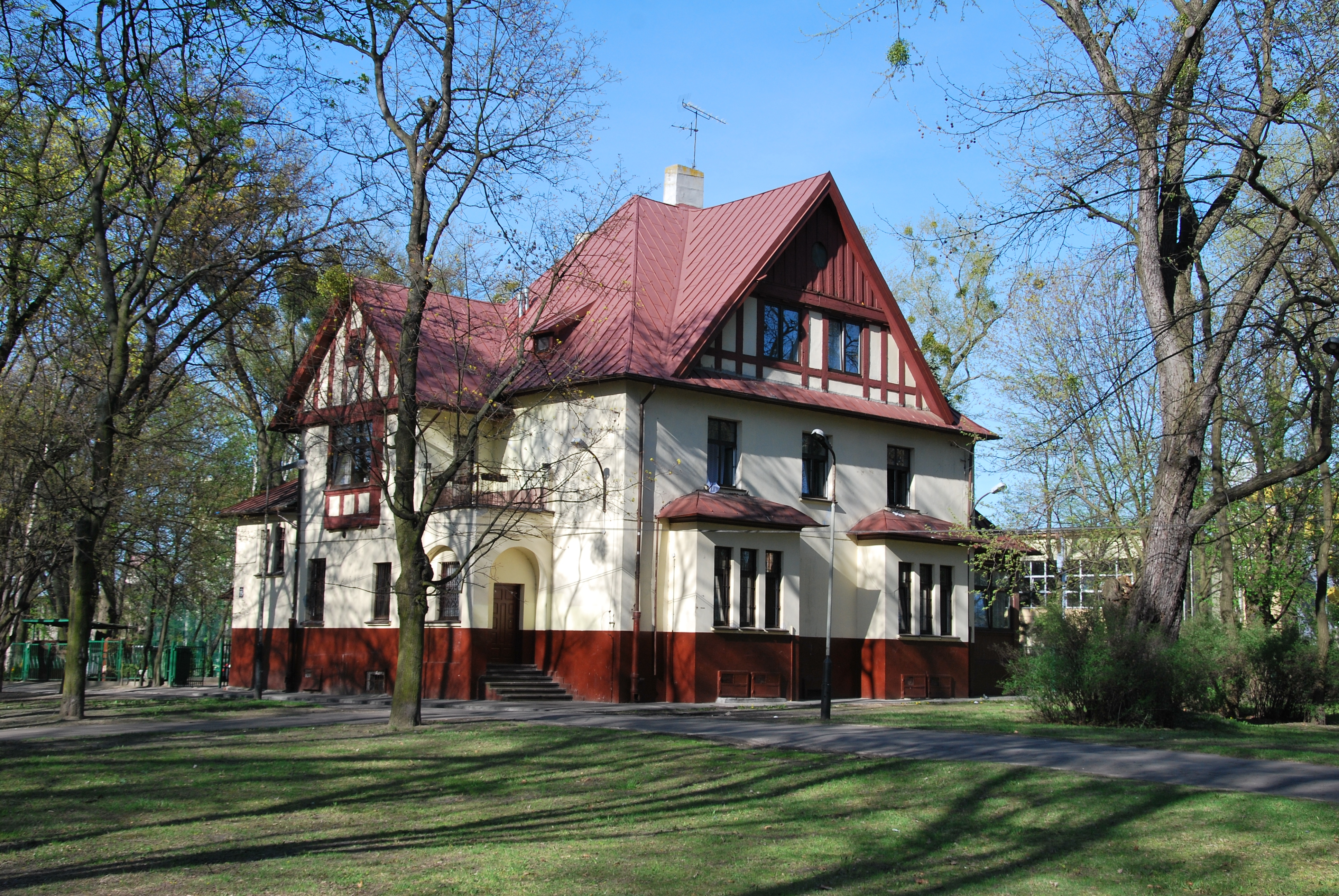 Orphanage no 6, 15 Bednarska Street Łódź